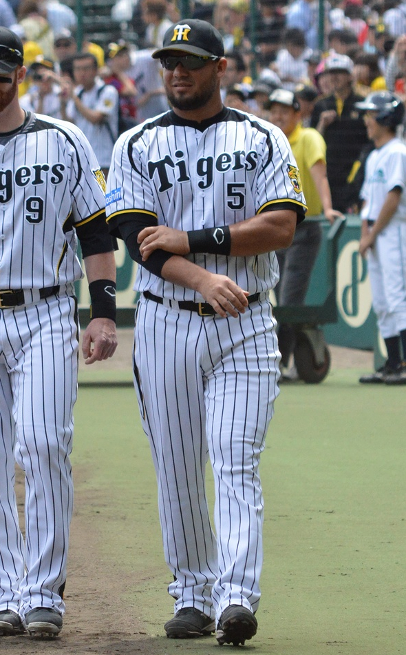 Mauro Gómez, infielder of the Hanshin Tigers, at Hanshin Koshien Stadium.